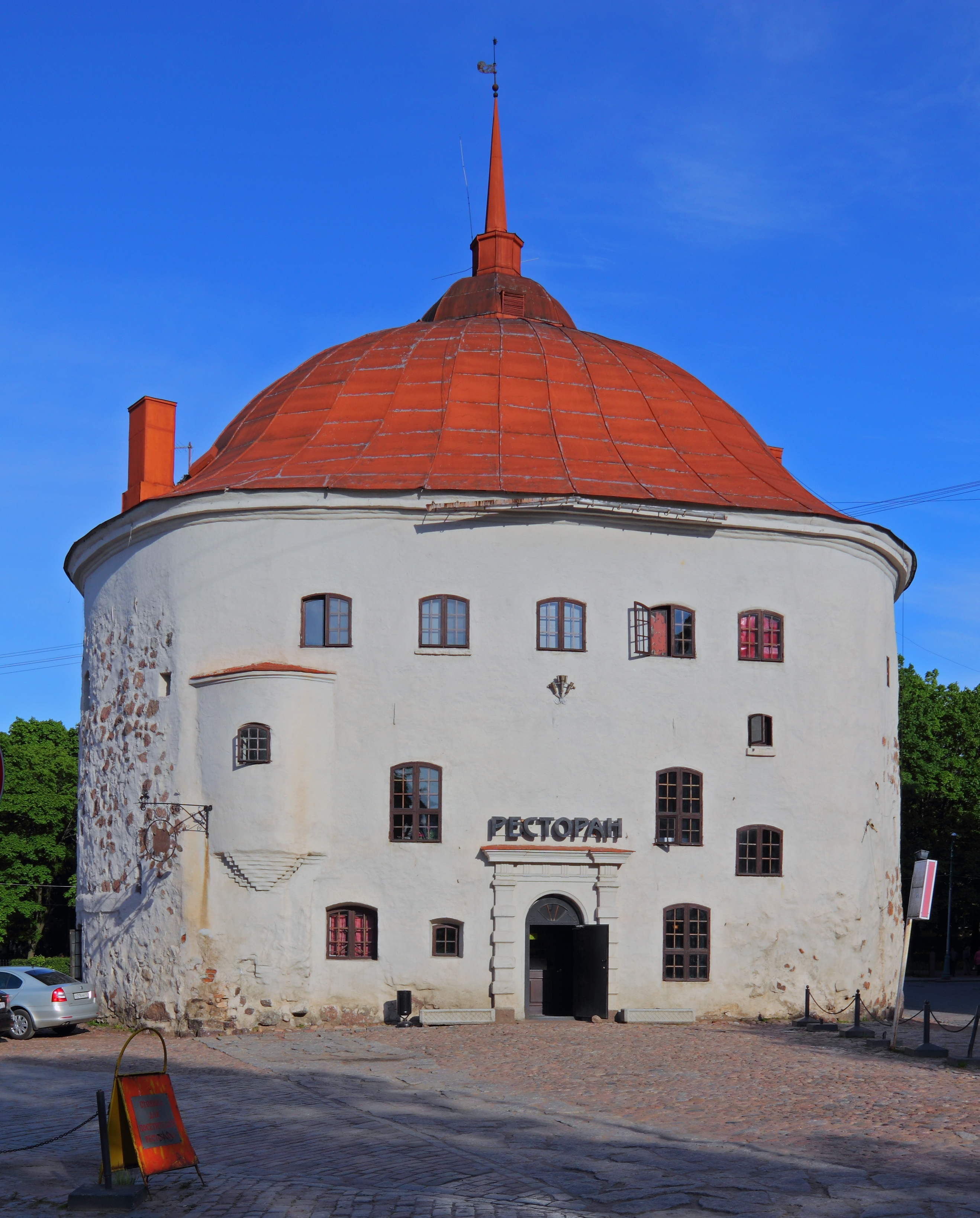 Vyborg (Viipuri), Leningrad Oblast, Russia. Round Tower.